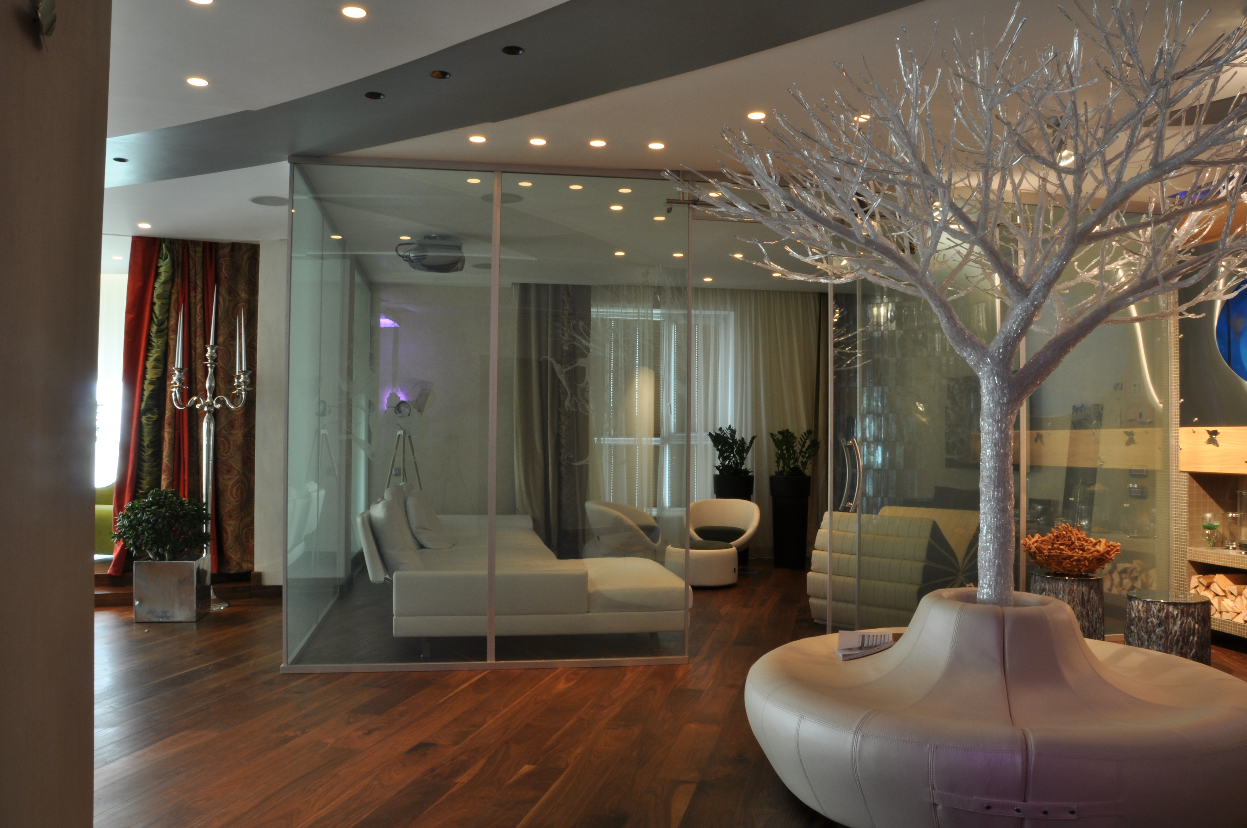 Soundproof Smart Glass